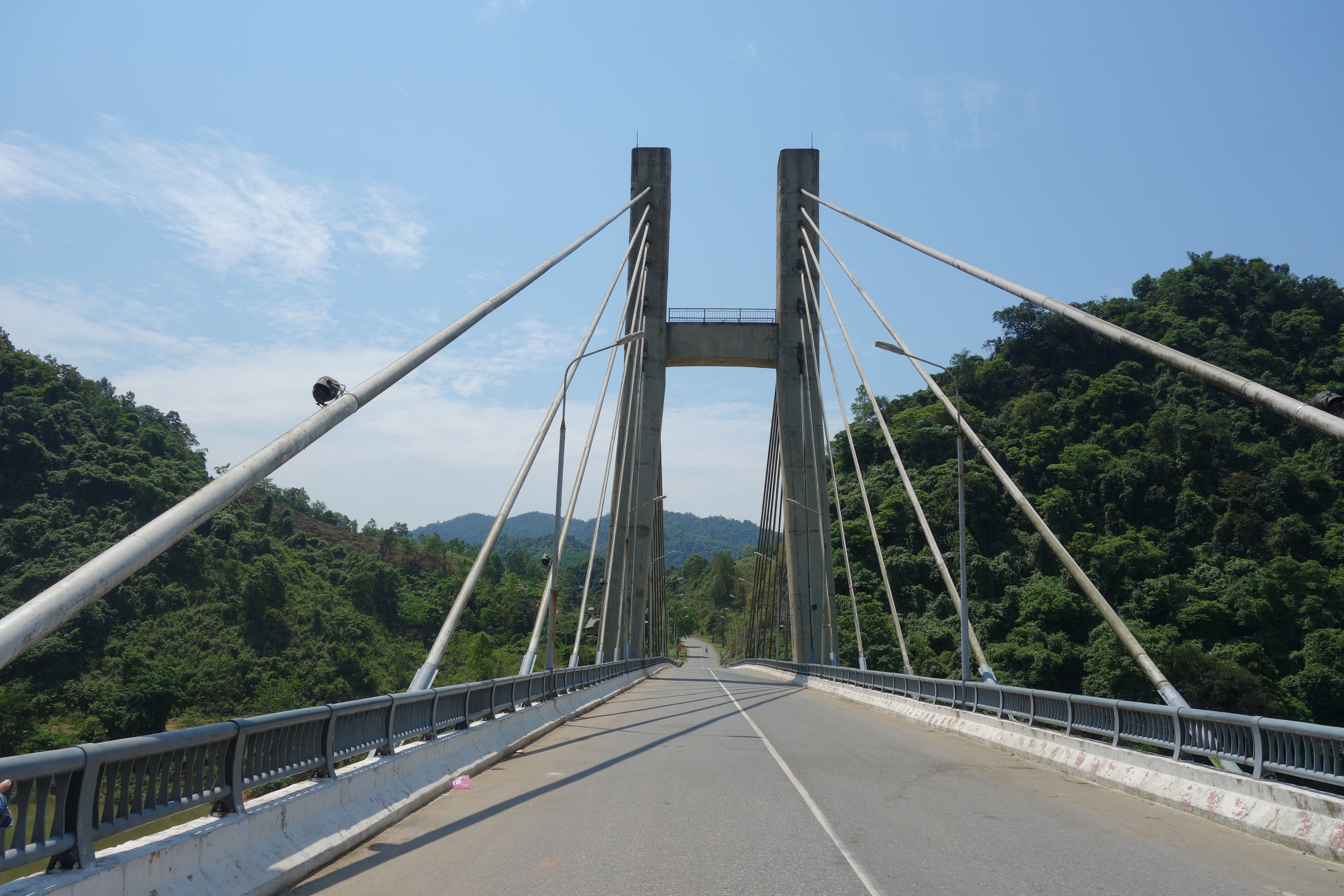 Tour of the DMZ, Vietnam